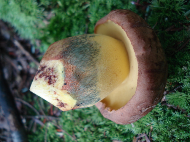 Boletus speciosus var. brunneus